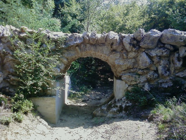 Little, old bridge over dryed up brook "Potok" near Dobrinj in Croatia on island Krk.